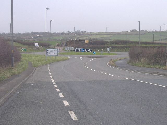 Roundabout at the A165/A1039 Junction Viewed from leaving Filey.